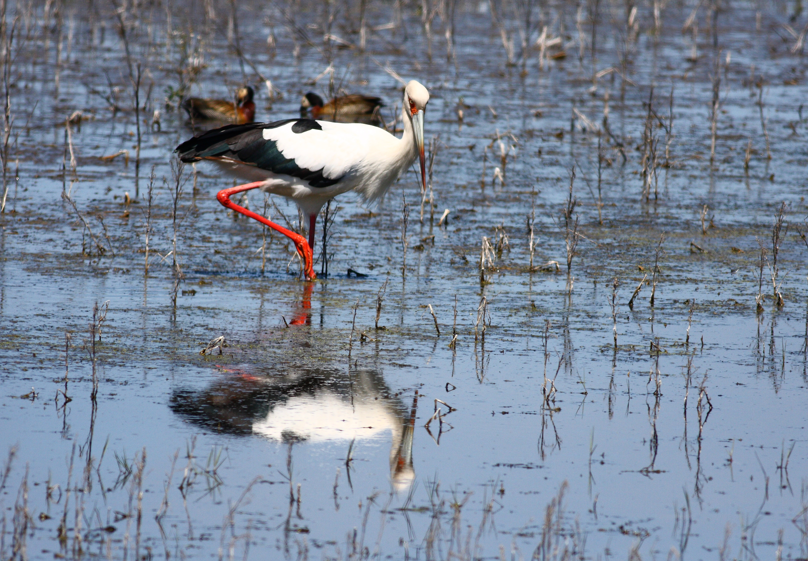 Ciconia maguari, a typical visitor of the Argentinian Wetlands. San Miguel del Monte, Buenos Aires, Argentina.